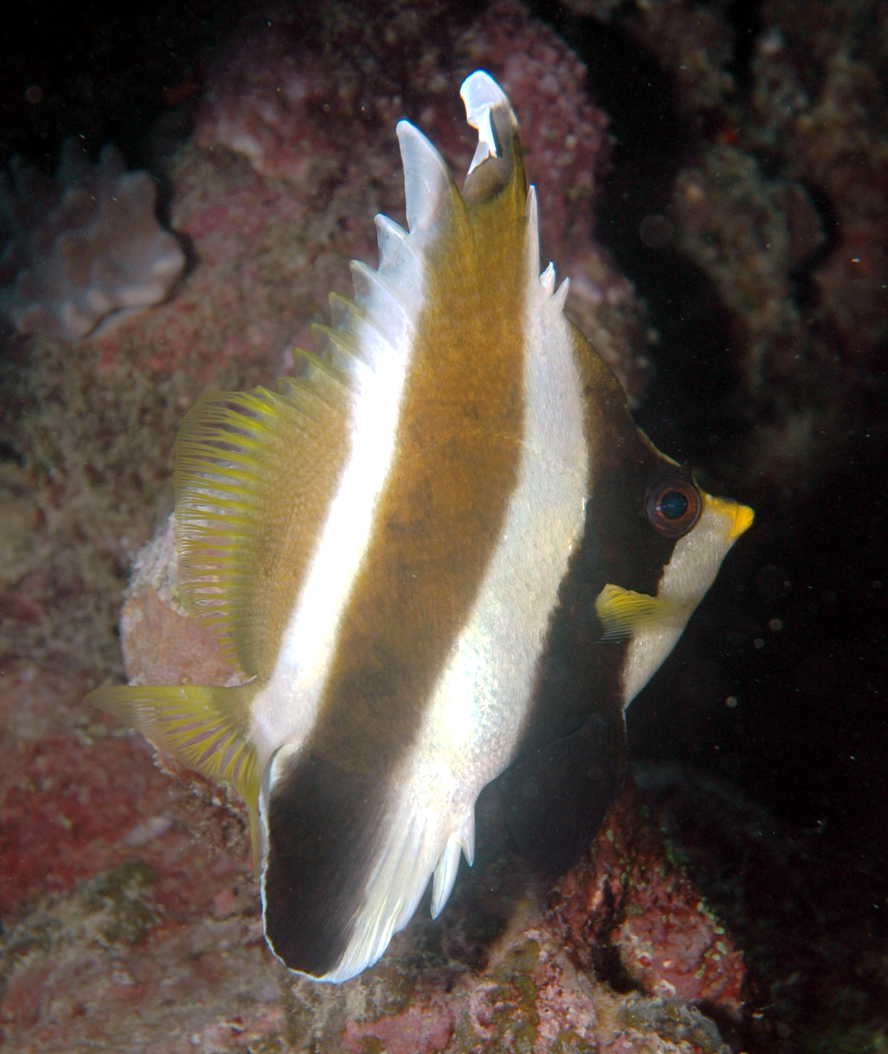 Heniochus chrysostomusGreat Barrier Reef, Cairns, Australia